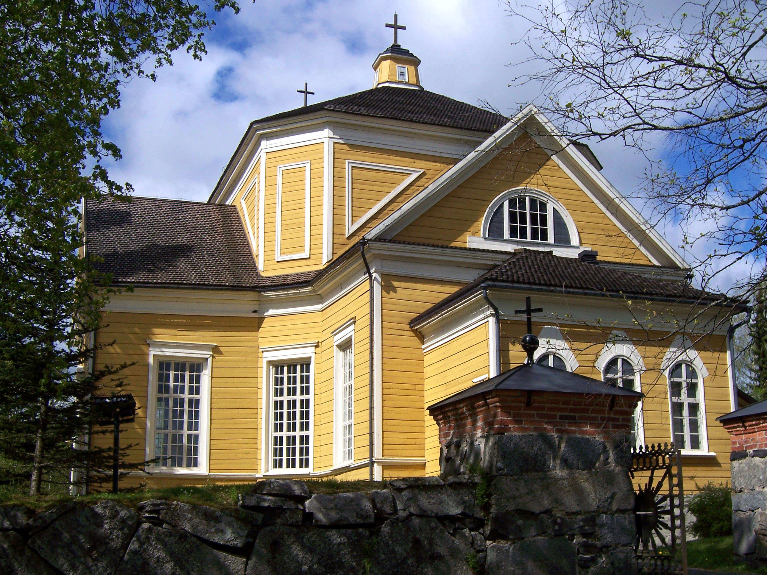 Ylöjärvi lutheran church, Ylöjärvi, Finland